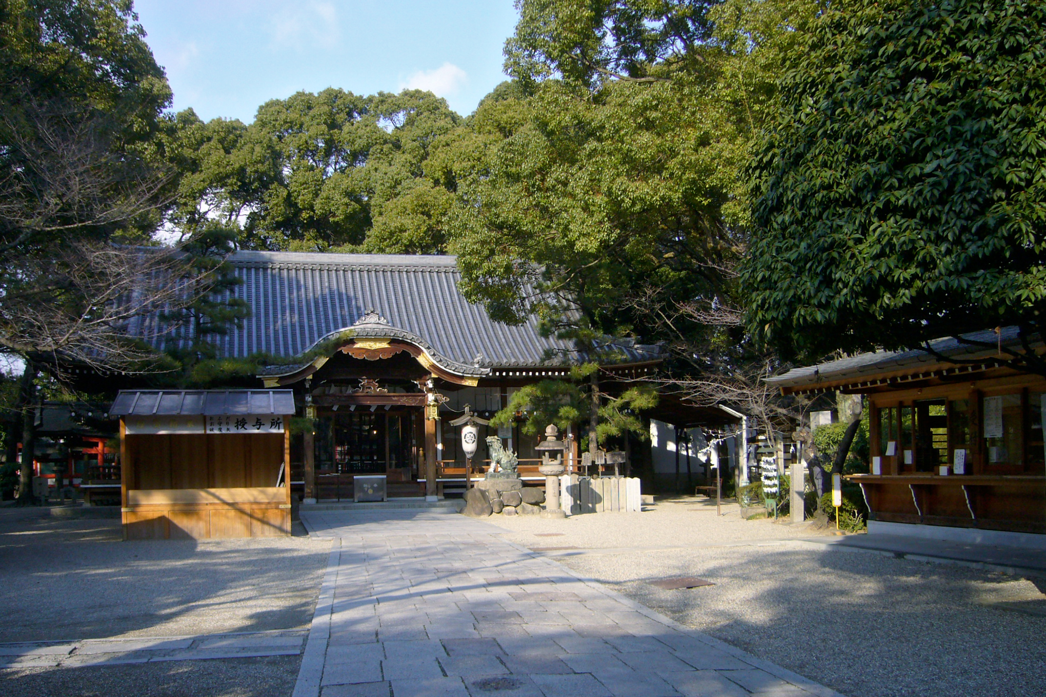 Kumata-jinja in Osaka, Osaka prefecture, Japan